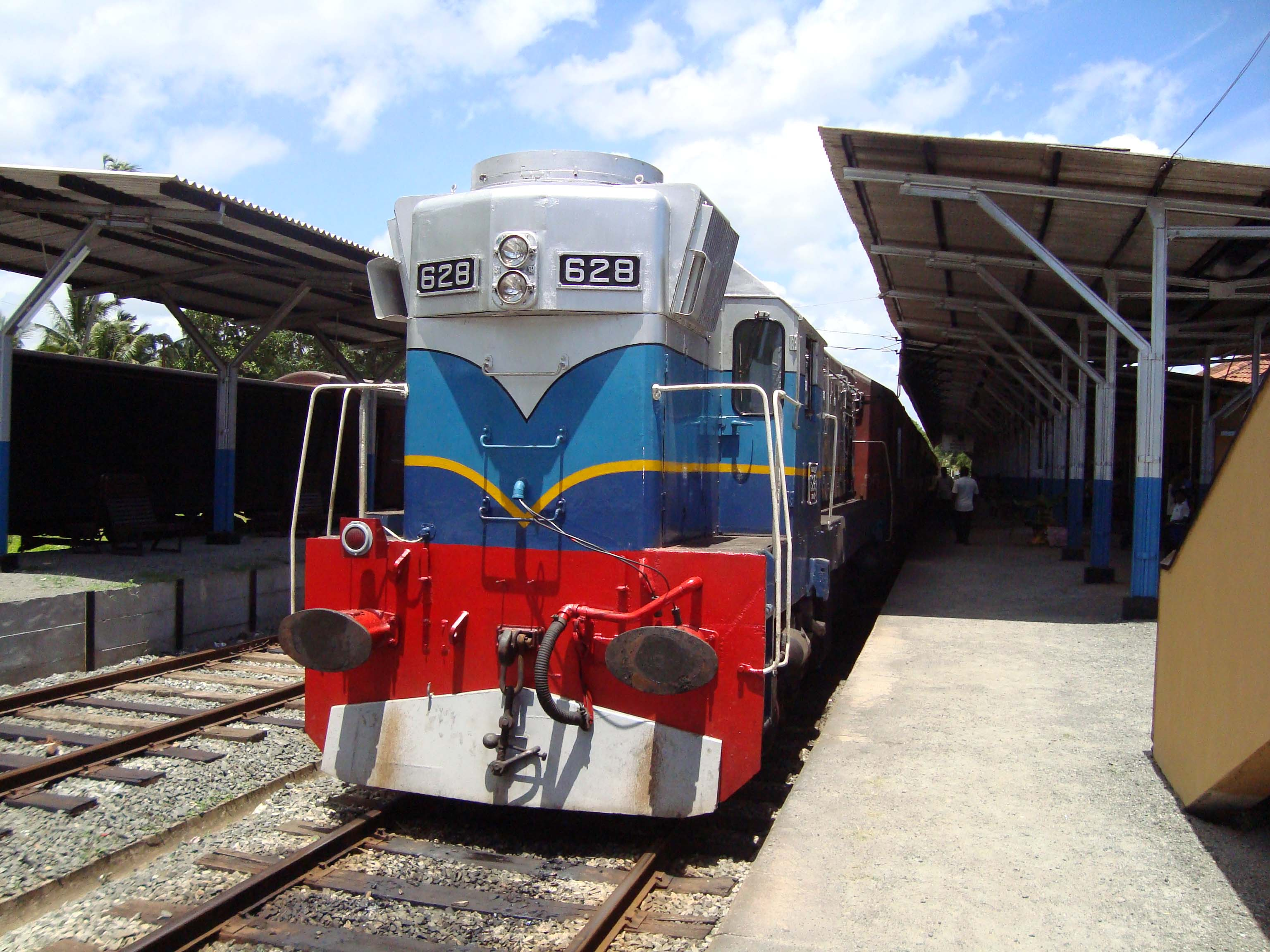 Canadian GMD G12, No. 628 Kankesanthurai (Class M2D- 1310 HP) engine at the Matara Railway station, ready to haul an express train to Colombo.